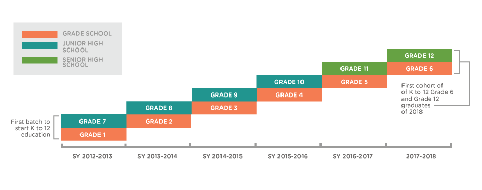 Program implementation in public schools is being done in phases starting SY 2012–2013. Grade 1 entrants in SY 2012–2013 are the first batch to fully undergo the program, and current 1st year Junior High School students (or Grade 7) are the first to undergo the enhanced secondary education program. To facilitate the transition from the existing 10-year basic education to 12 years, DepEd is also implementing the SHS and SHS Modeling.